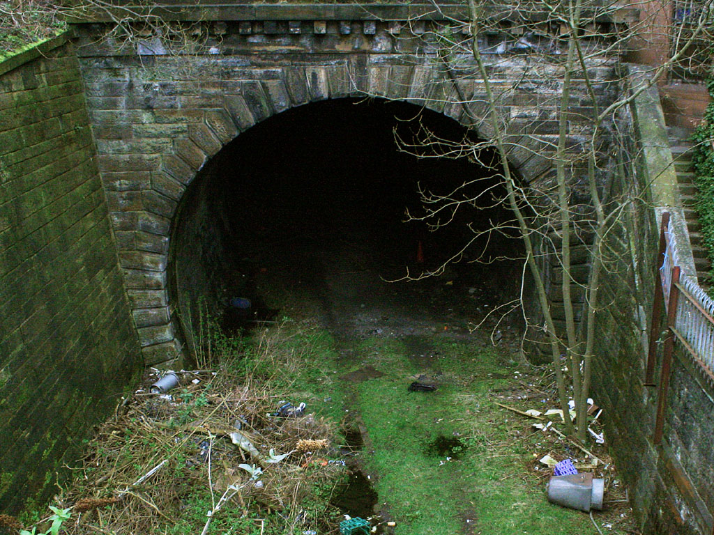 The entrance of the tunnel from Kelvinbridge railway station to Botanic Gardens railway station.